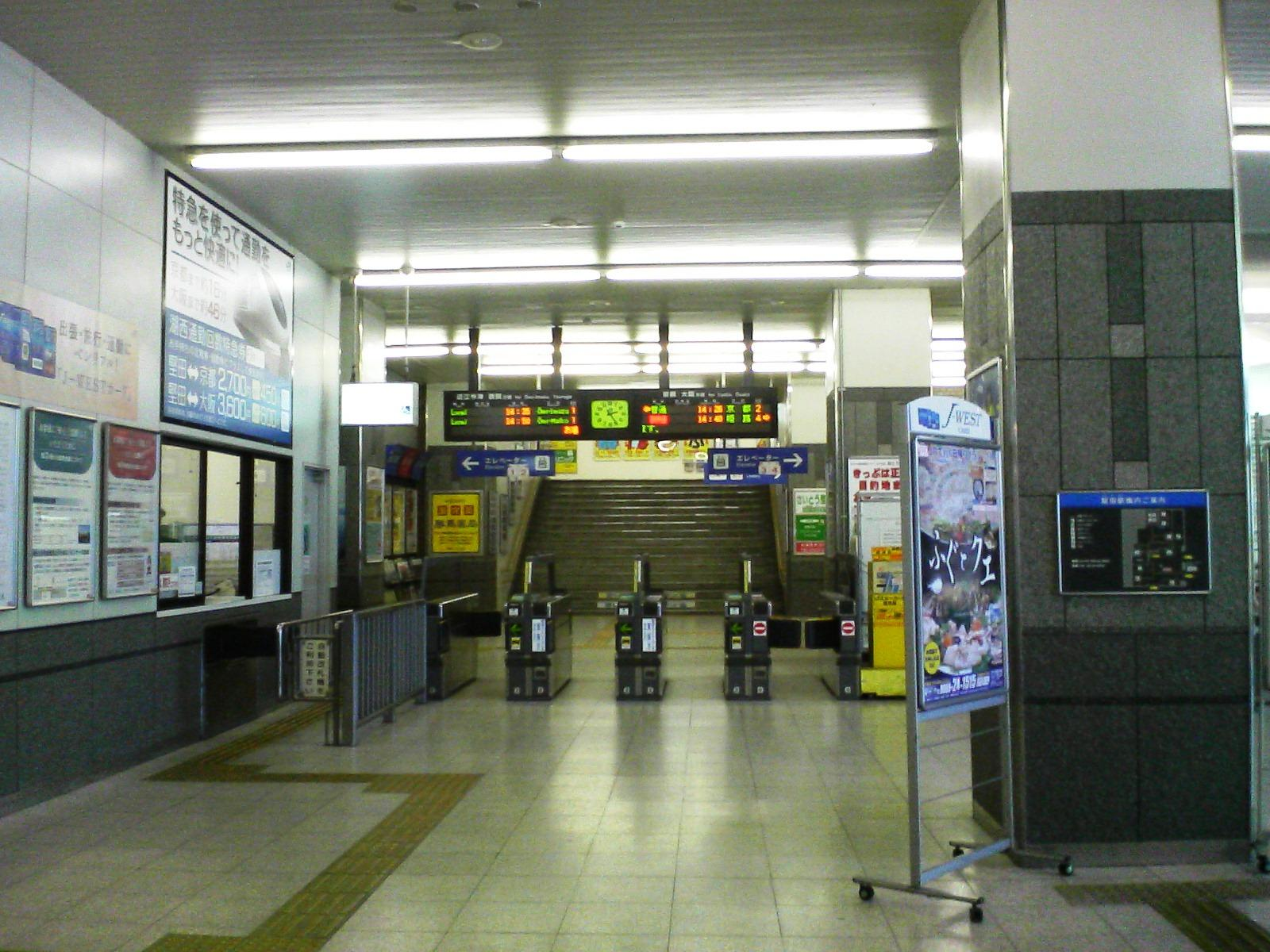 JR Katata Station